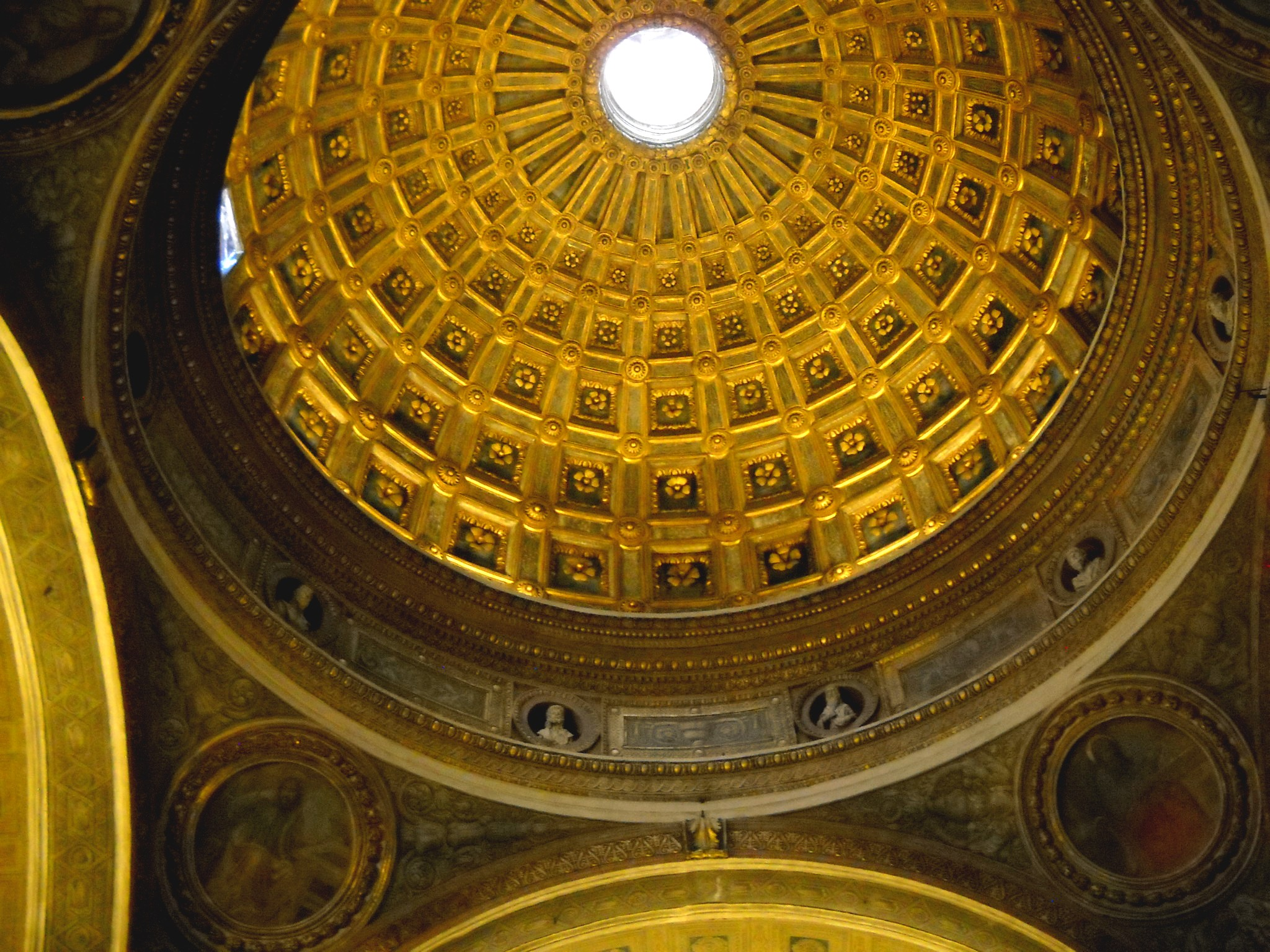 Dome of the church of Santa Maria presso San Satiro